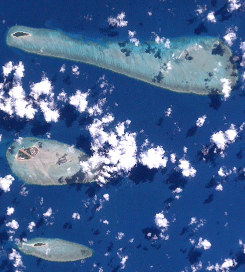 The Three Sisters (Island Group), Torres Strait Islands, Queensland, Australia. The islets/islands are, from north to south: Bet Islet, Sue Island, Poll Islet